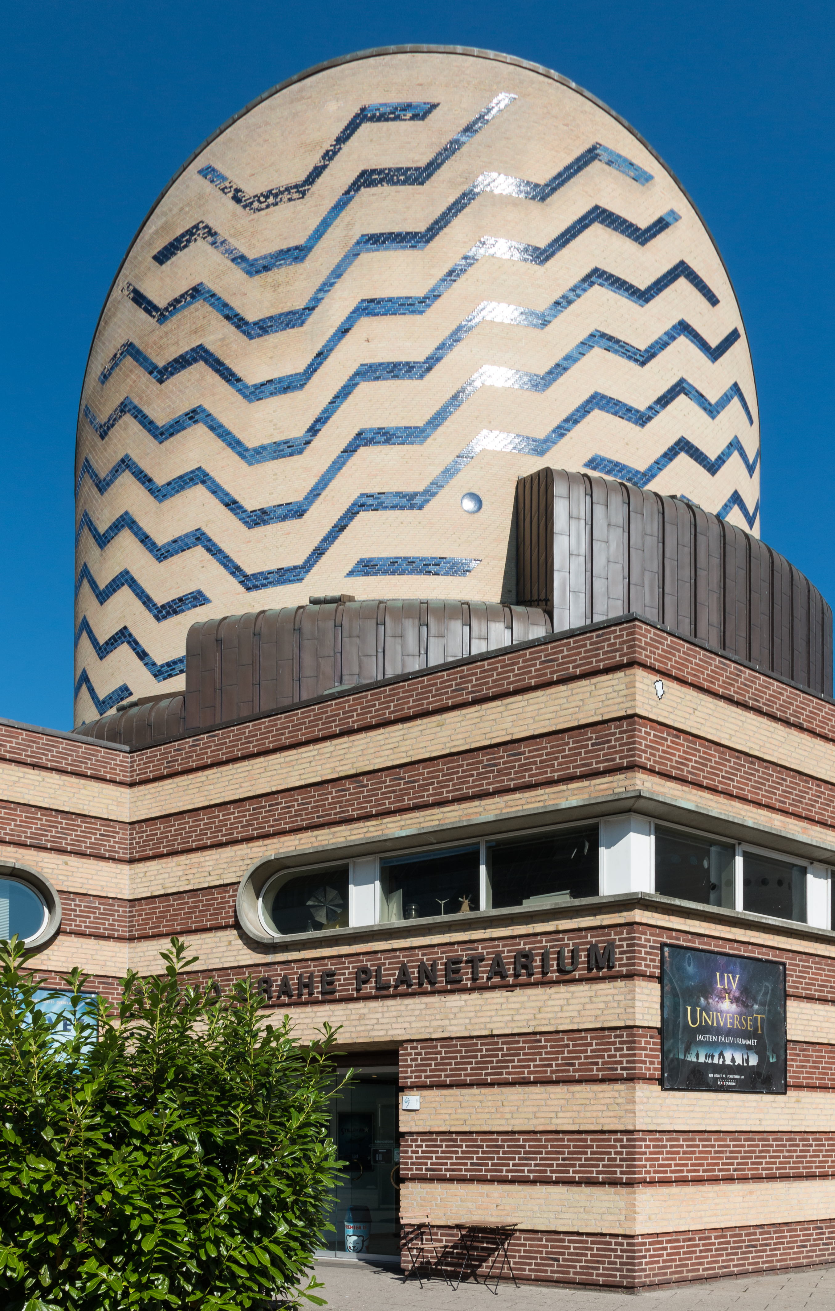 Tycho Brahe Planetarium in Copenhagen, Denmark